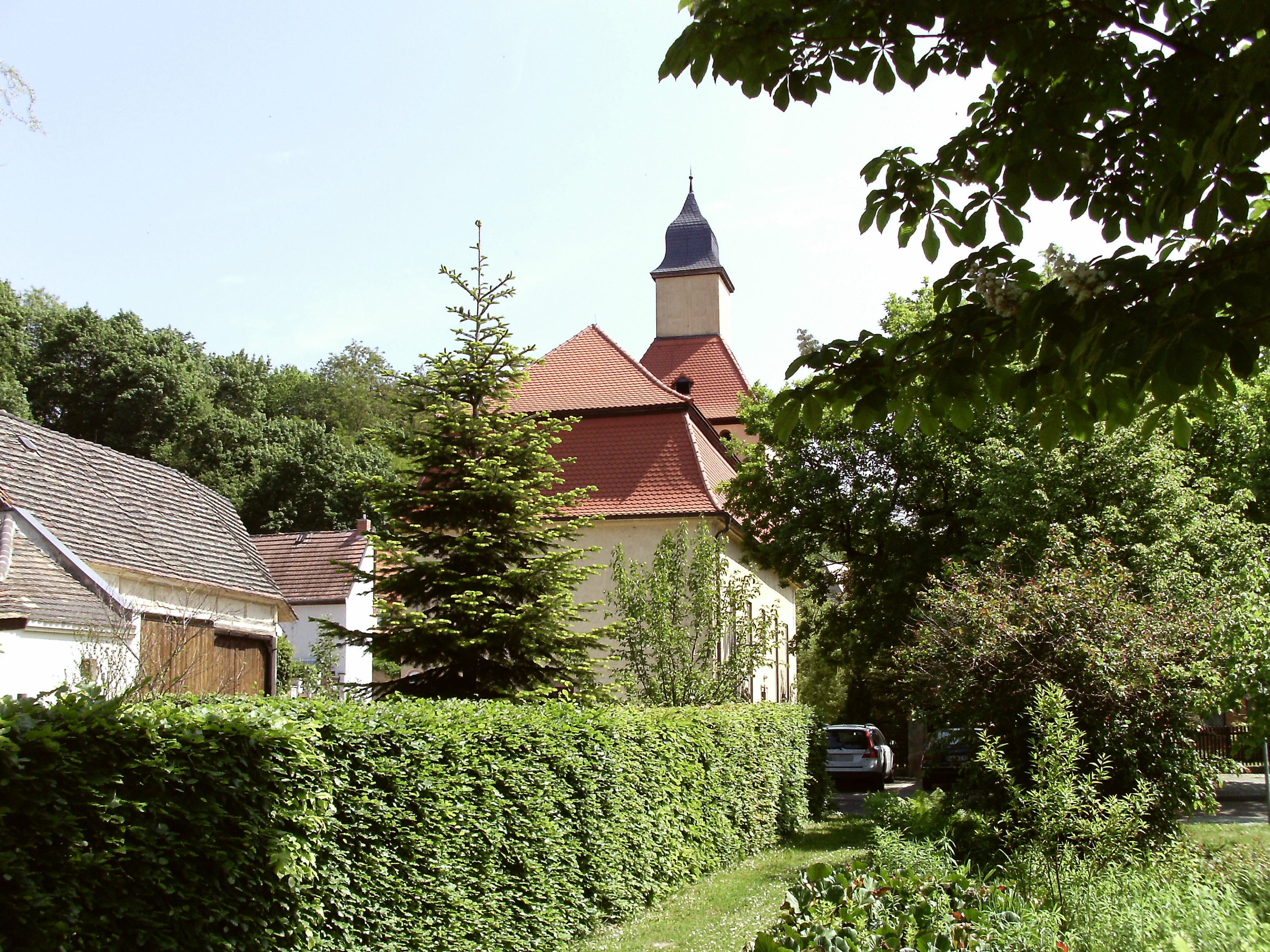 Markwerben church from the west (Weissenfels, district of Burgenlandkreis, Saxony-Anhalt)